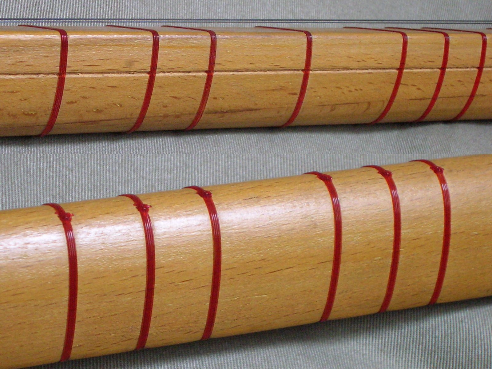 Nylon monofilament frets, tied on to the neck of a beginner-level saz. Note the microtone frets between the half-steps.